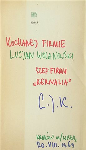 Ludwik Jerzy Kern (1920-2010)'s autograph - to Lucjan Wolanowski (1920-2006), Polish journalist and traveller